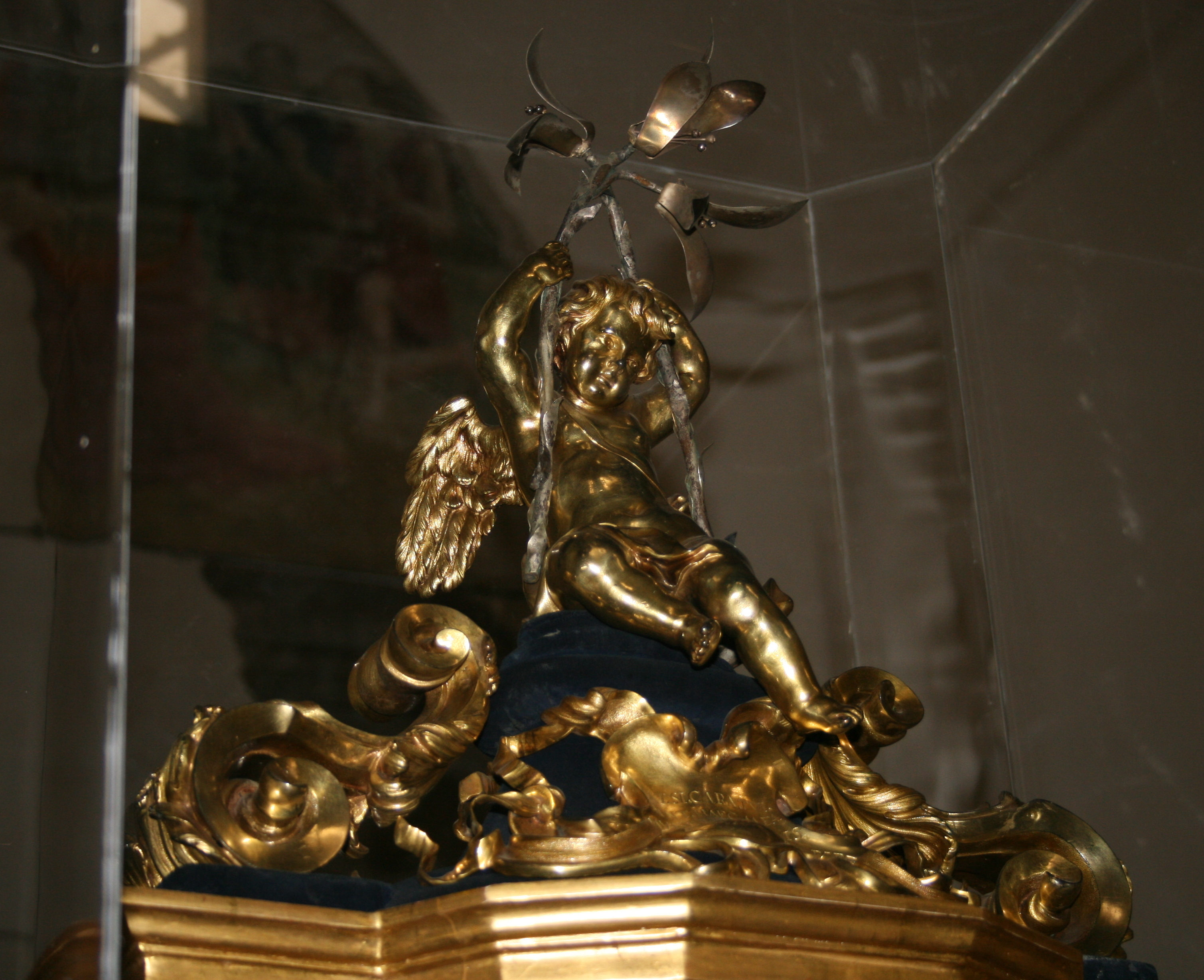 Detail of the Holy Milk Reliquary realized by Massimiliano Soldani Benzi